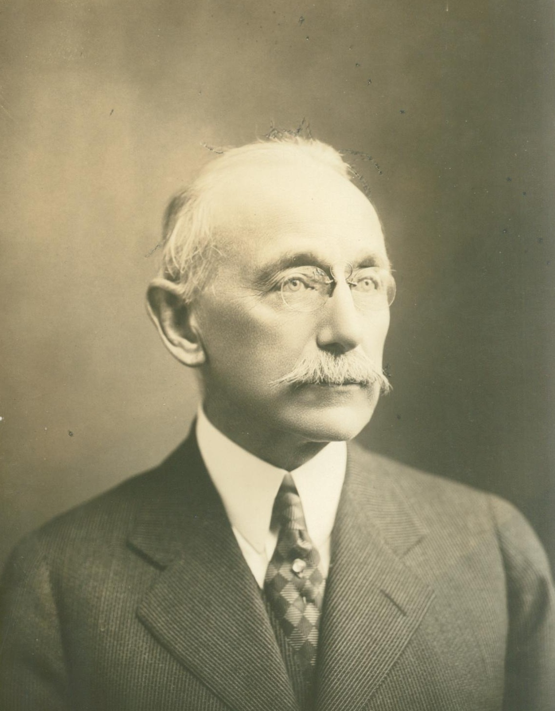 Portrait of Alexander Crombie Humprheys, 2nd President of Stevens Institute of Technology and late 19th century engineer.